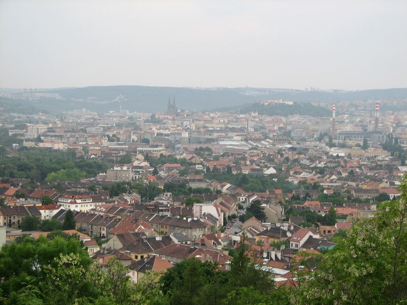 Overview of Brno from Bílá hora